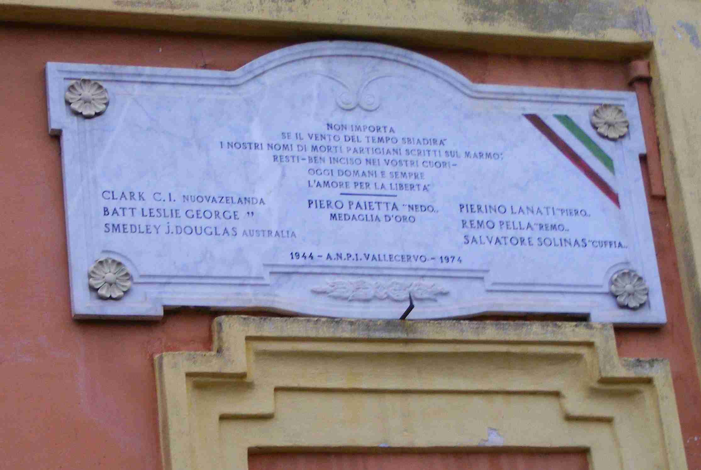 Tavigliano (BI, Italy): memorial tablet to the fallen partisans